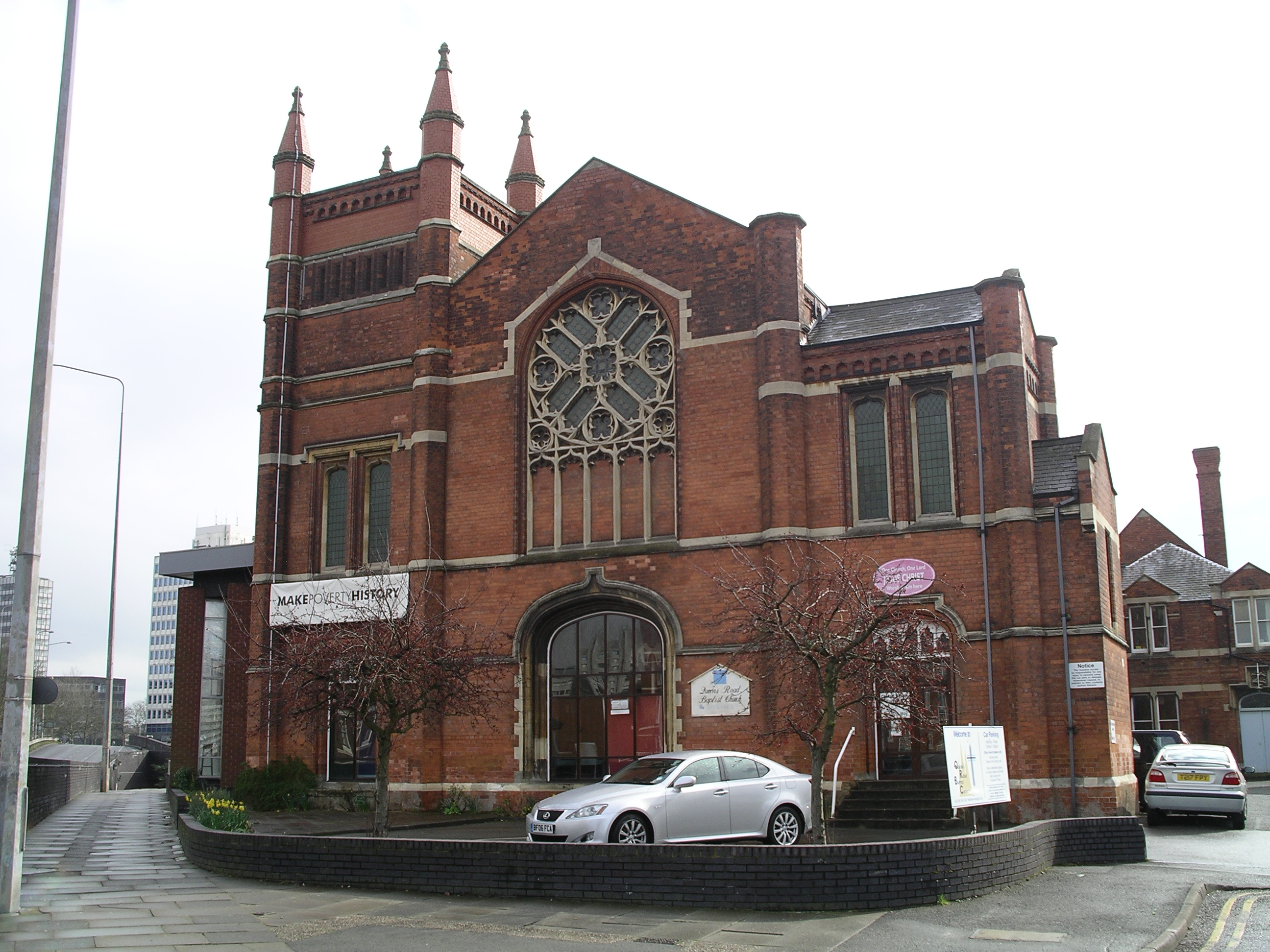 The front of Queens Road Baptist Church, Coventry, England.